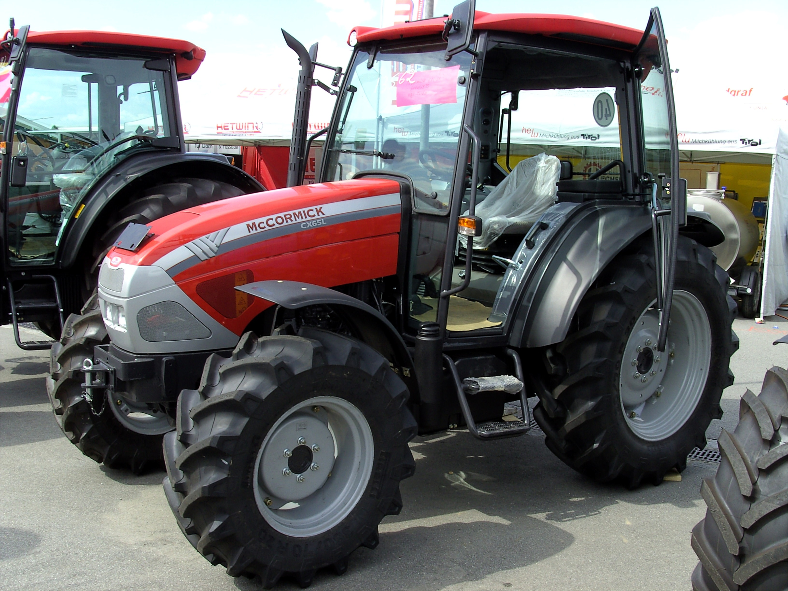 McCormick CX65L tractor.